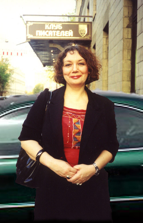 Maria Arbatova